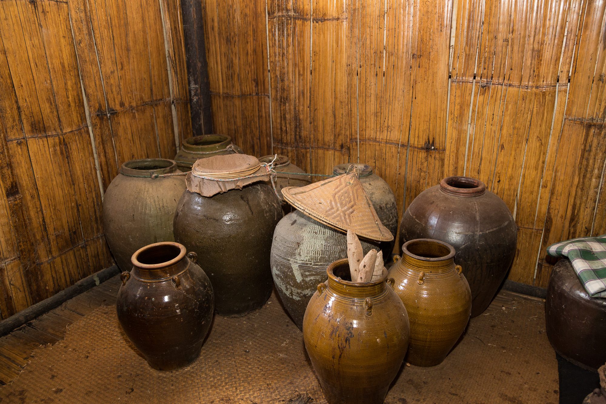 Kg. Kuai Kandazon, Penampang, Tapai jars, displayed in the House of Skulls of the Monsopiad Cultural Village. Tapai is a traditional rice wine